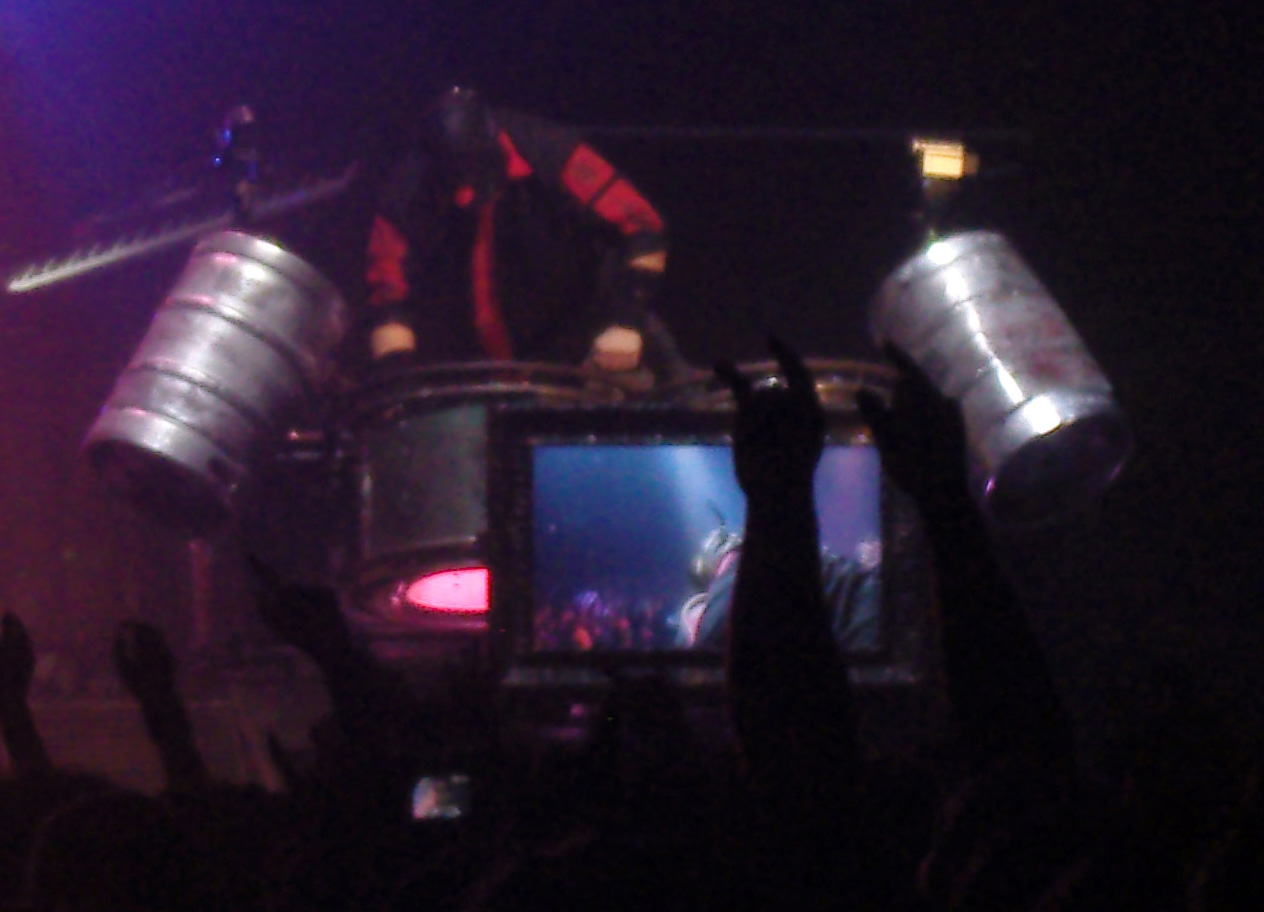 Percussionist Clown of Slipknot performing in Sheffield Arena.